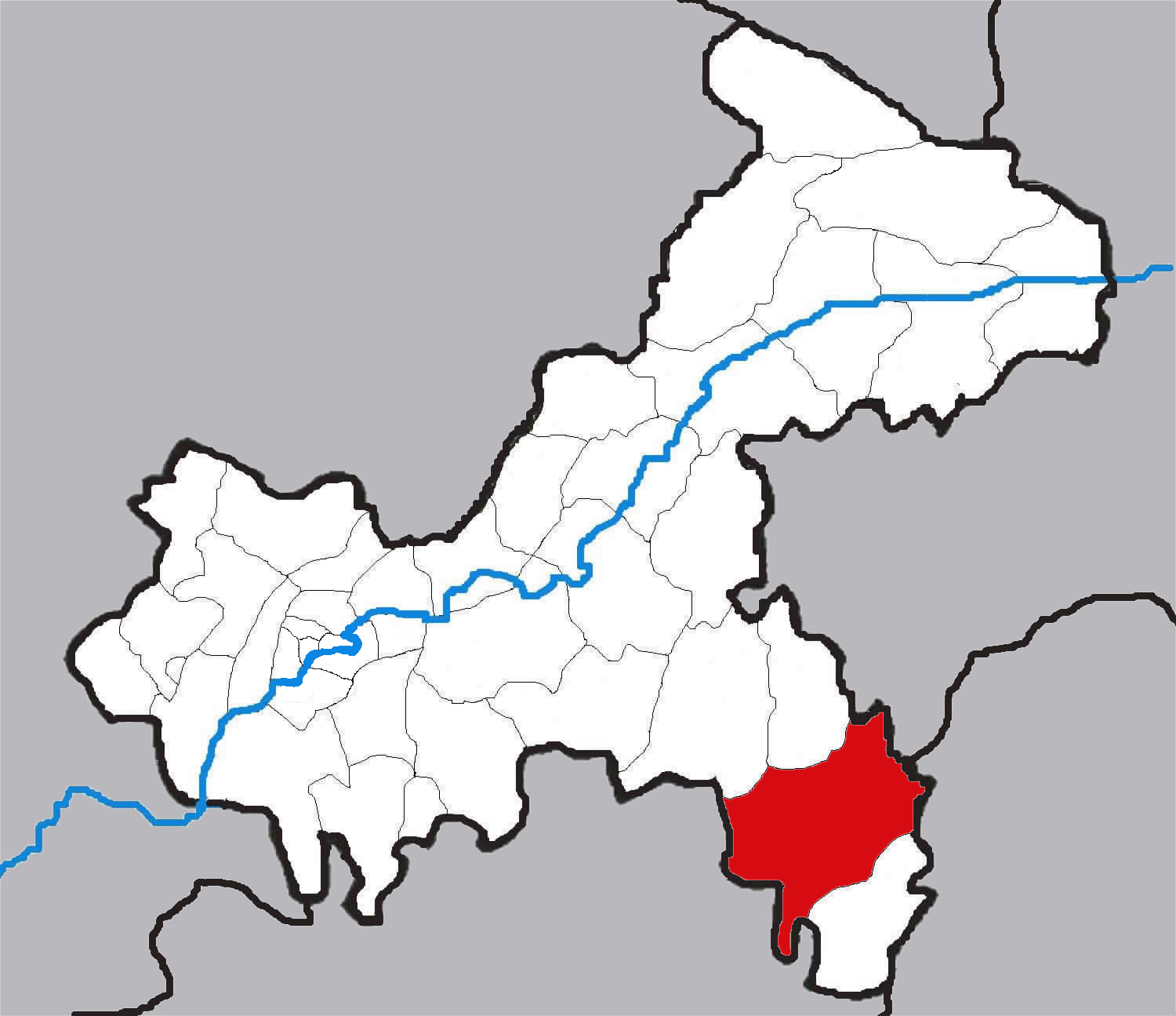 Administration maps of Chongqing, China